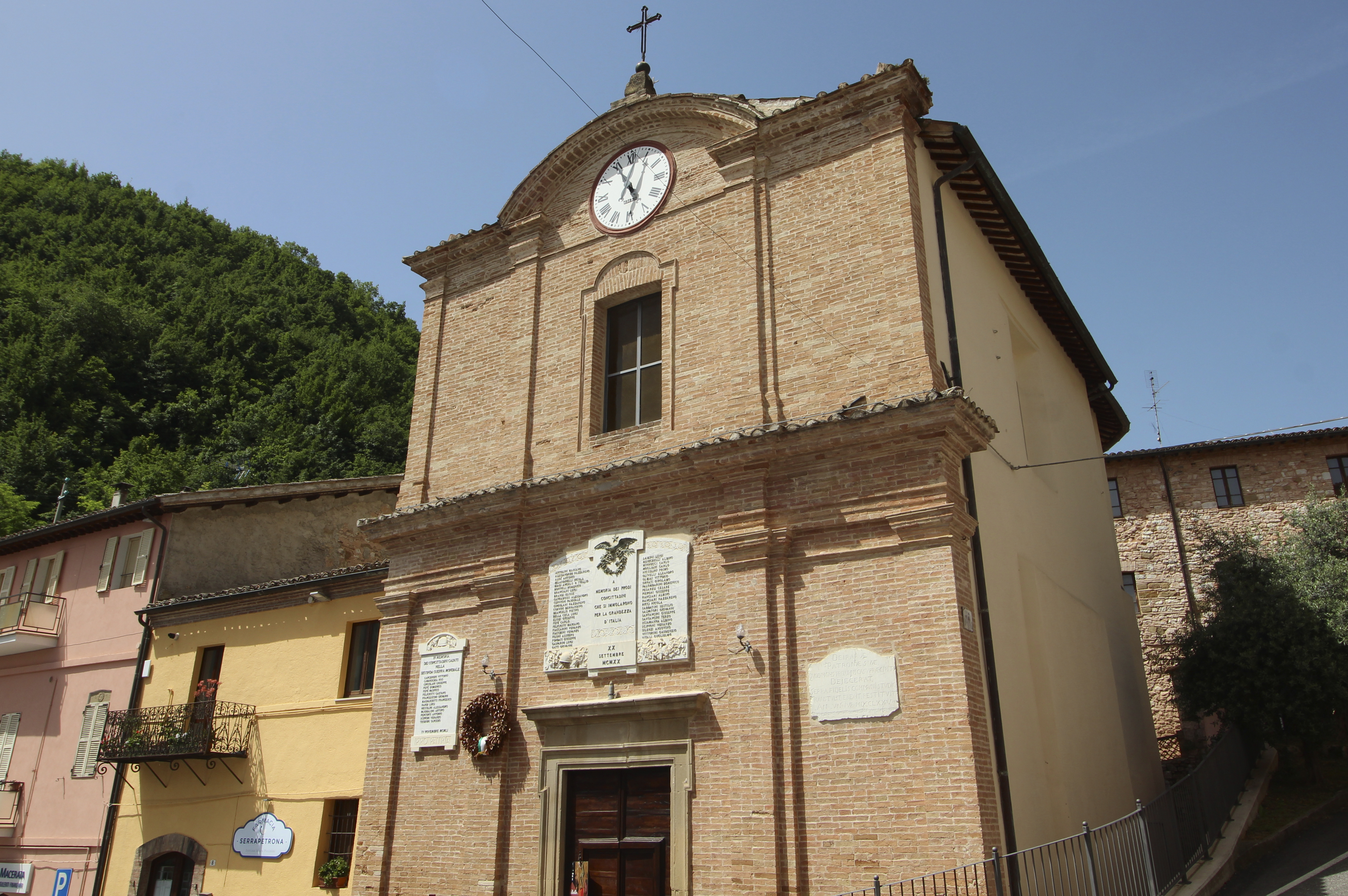 Church Santa Maria di Piazza (Santa Maria Assunta), Serrapetrona, Province of Macerata, Marche, Italy.